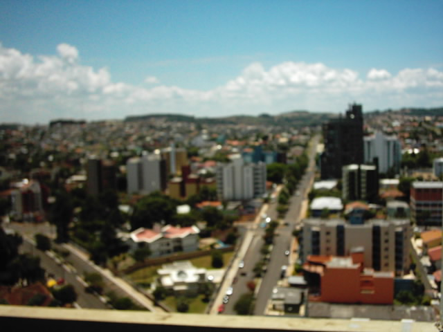 Chapeco, midday 12/12/2005